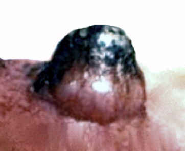 espinocellular carcinoma.